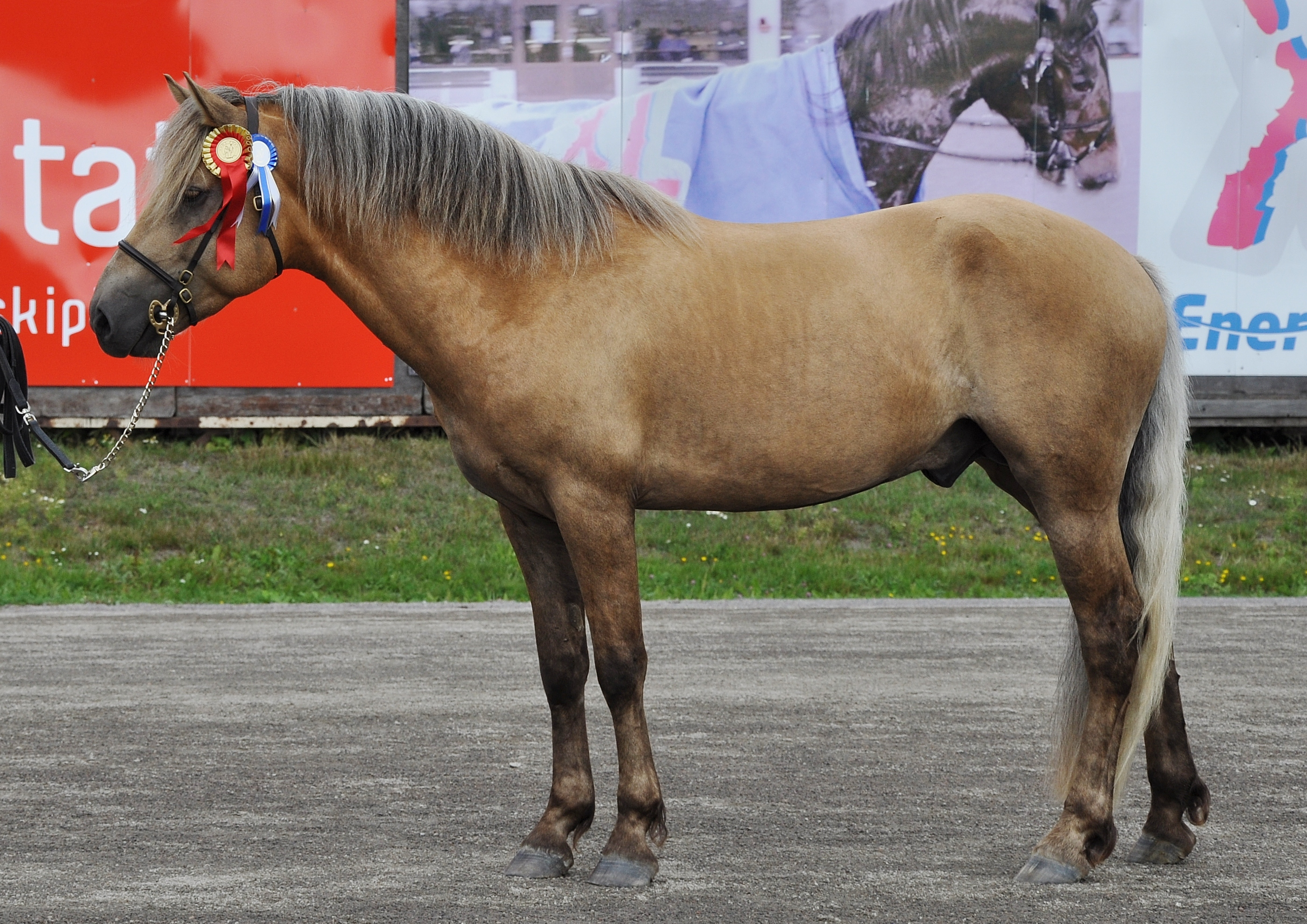 Dark/sooty palomino Finnhorse colt Hillan Jarran.